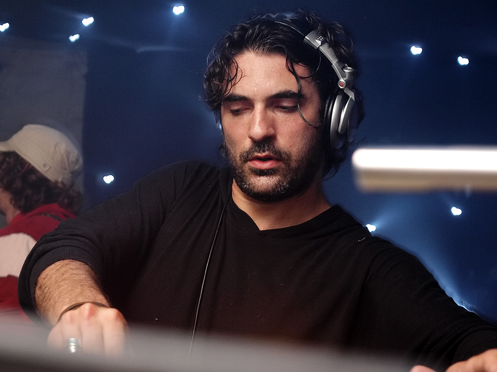 André Galluzzi DJing at Alte Diamantbrauerei, Magdeburg (Flyer)